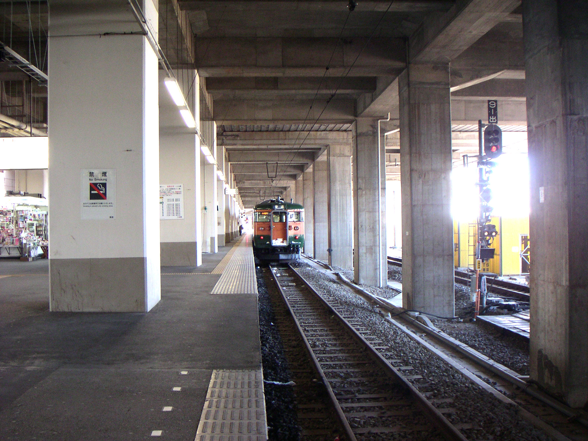 Oyama Station, Tochigi, Japan: Platform for Ryōmō Line 小山駅両毛線ホーム